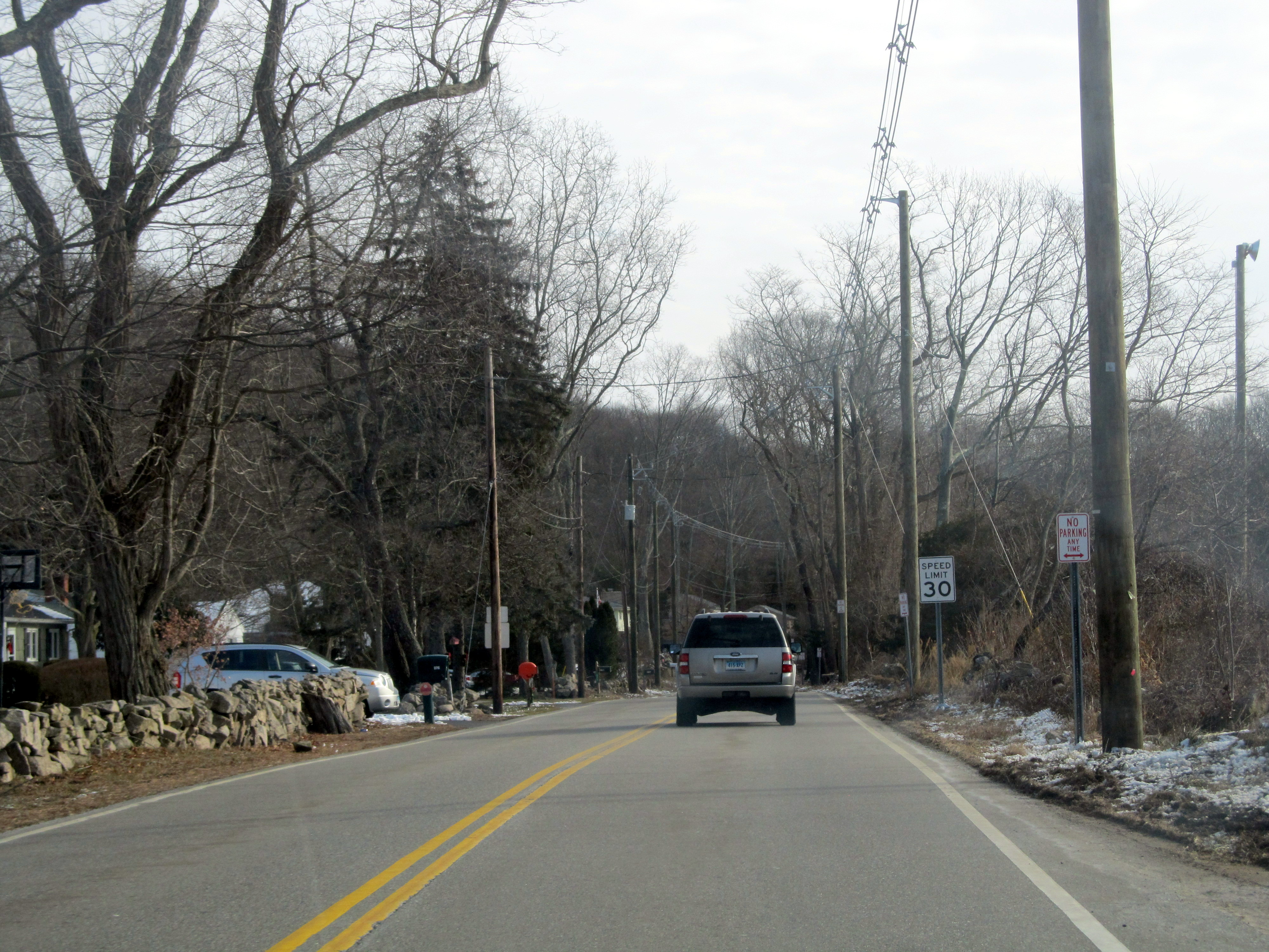 Connecticut Route 214 near its east end at Route 12 in December 2017